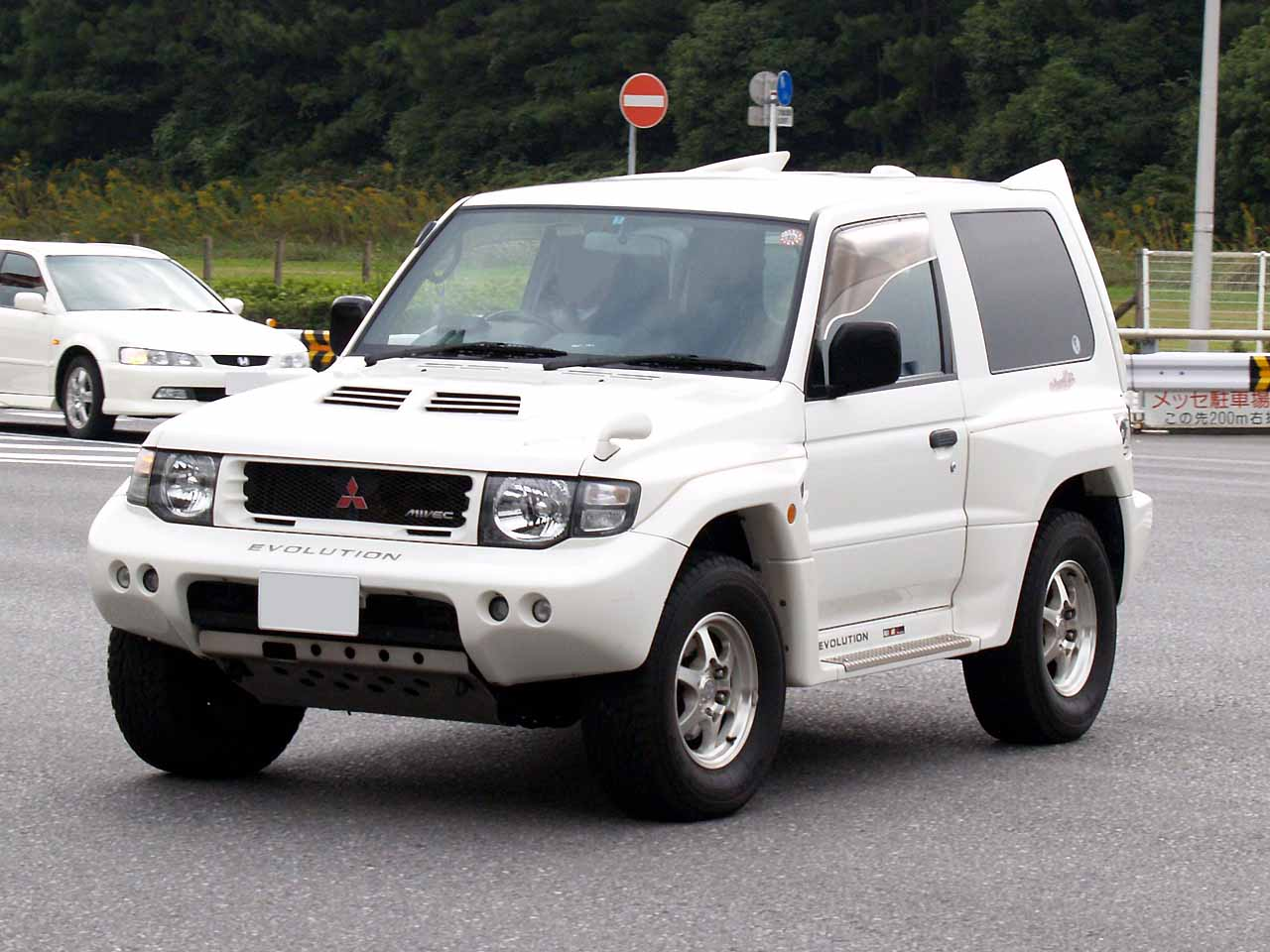 Mitsubishi Pajero Evolution V55W (Product model: manufactured in 1997)